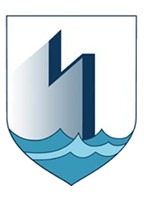 COA of Strandabyggð